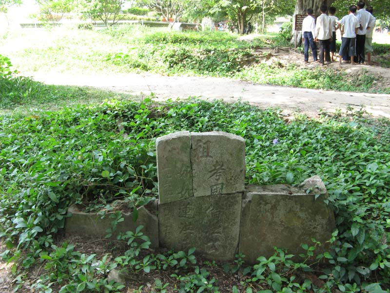 Photographed and uploaded to English Wikipedia by Mccavity nz